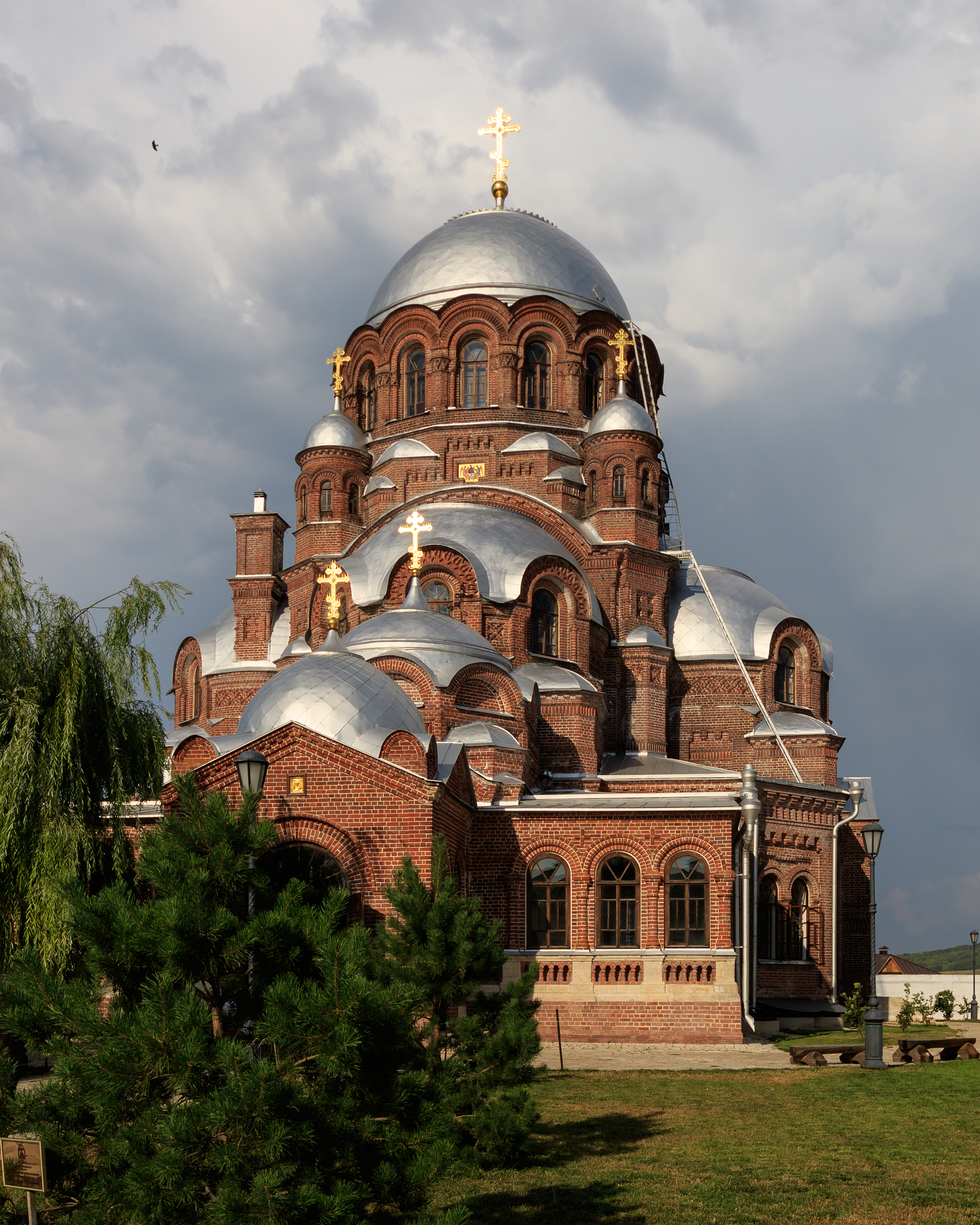 Church of Our Lady „Joy of All Who Sorrow” in Ioanno-Predtechensky Convent. Sviyazhsk, Tatarstan, Russia.